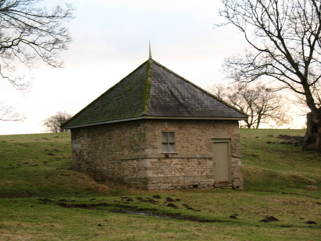 The Game Larder, Studley Royal Park — a landscape garden park in North Yorkshire. This small building in the park was used for the hanging of game such as pheasant, duck or deer — before being prepared for the Aislabie's table.